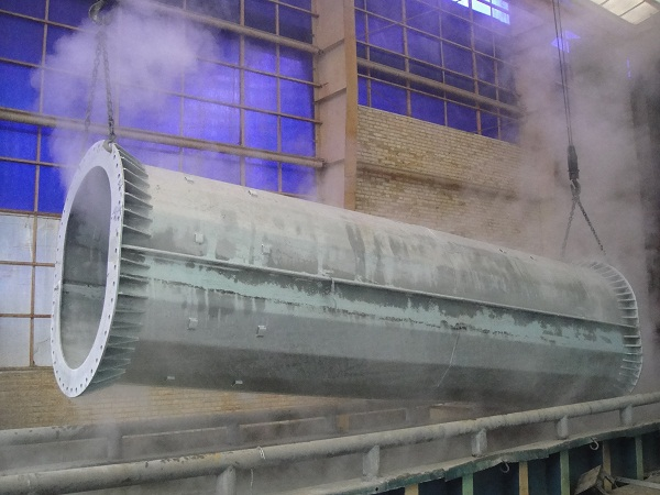 hot dip galvanizing galvanize.ir